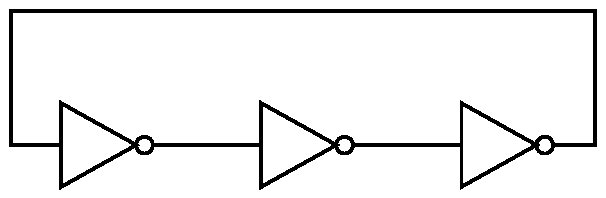 This is a diagram of a simple three stage ring oscillator